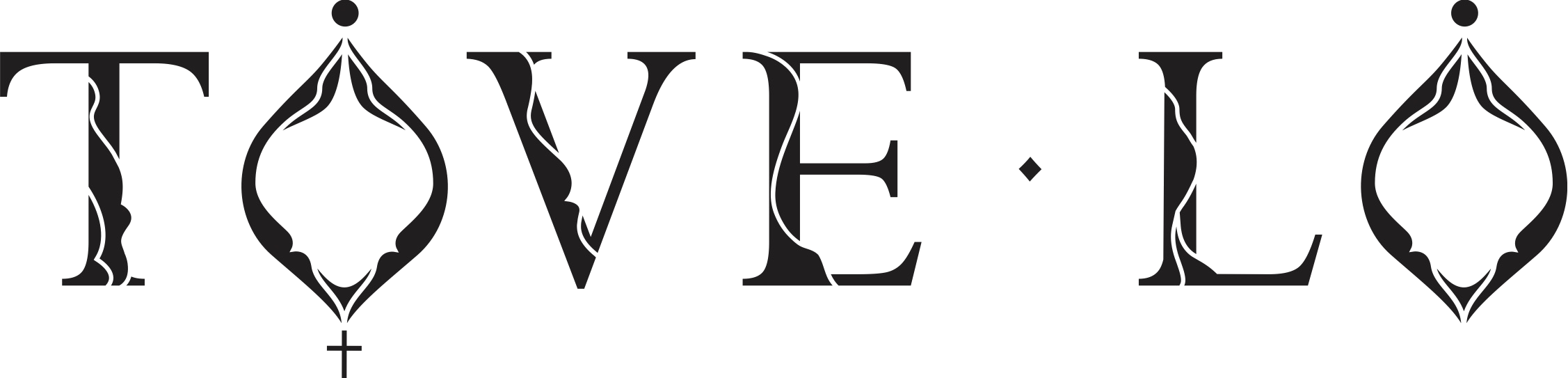 This is the logo used by Tove Lo Logo